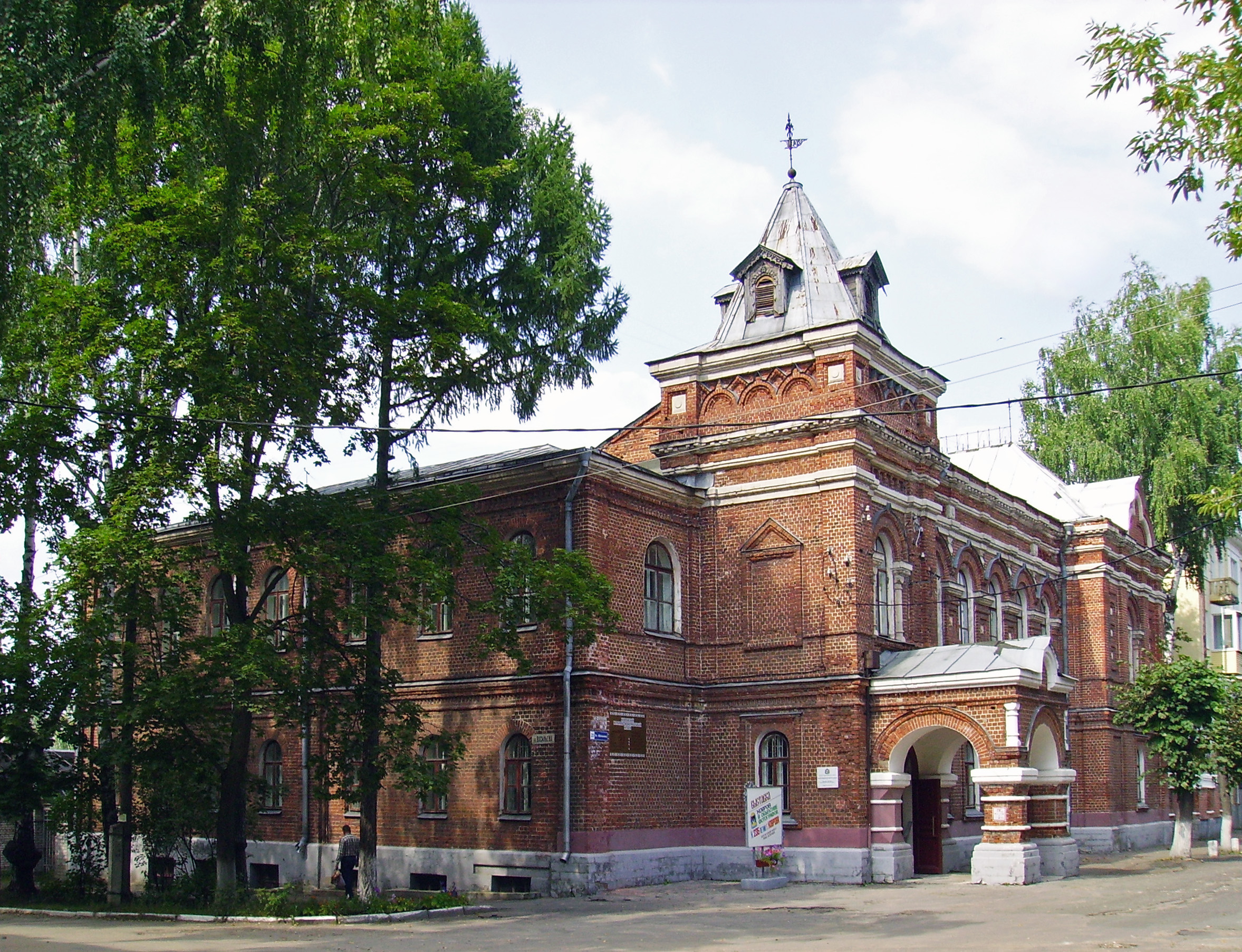 Kovrov. Town Museum